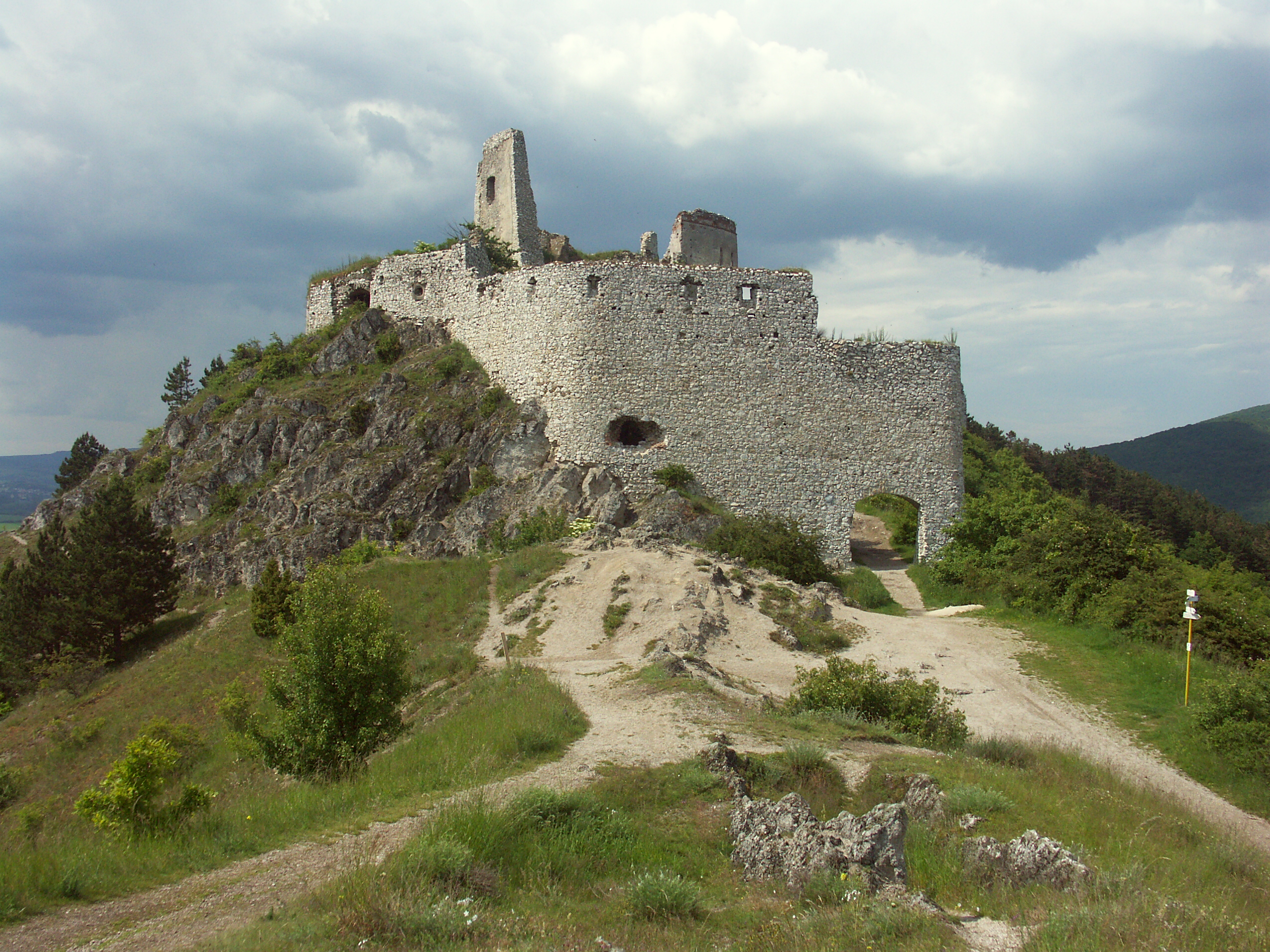 Castle ruins in Čachtice, Slovak republic